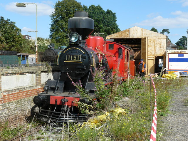 Locomotive at Ongar Station